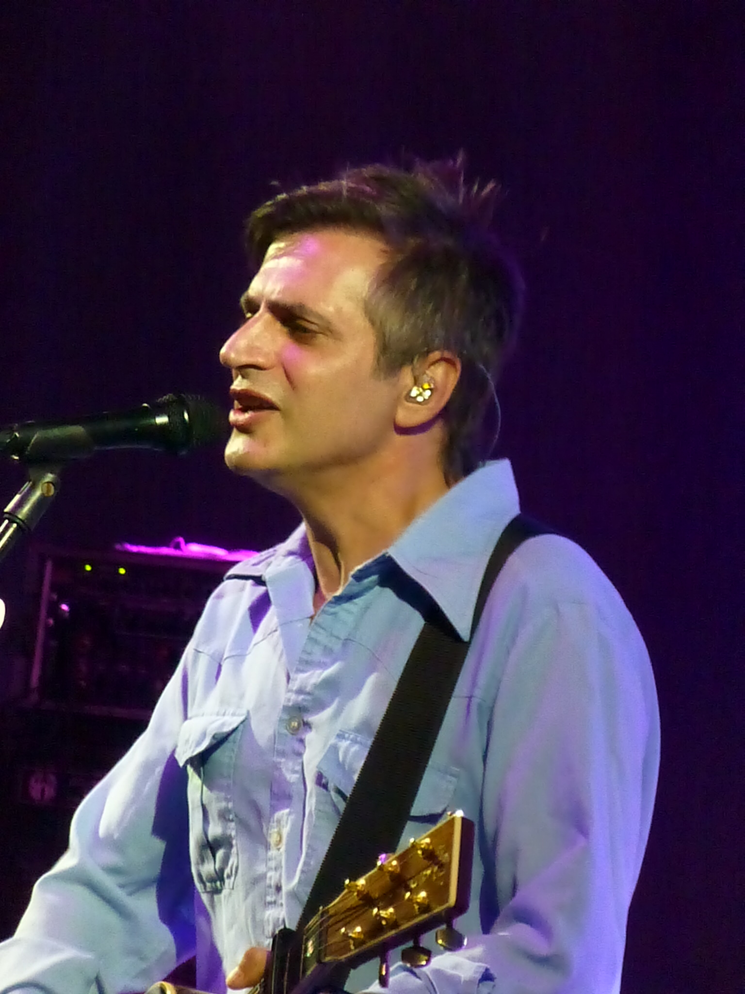 Teoman 2013 / Koç Museum / Istanbul